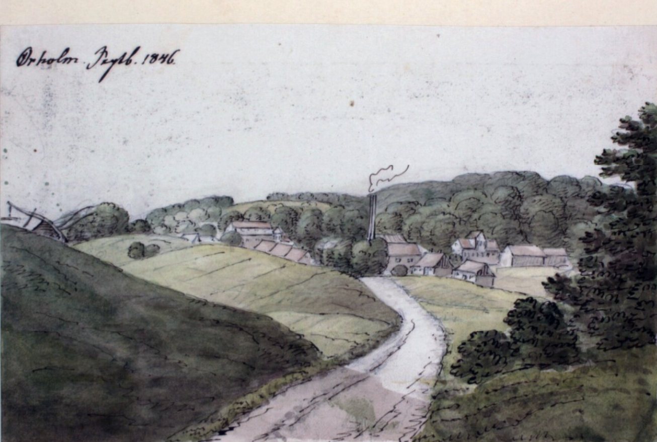 Ørholm to the north of Copenhagen, Denmark